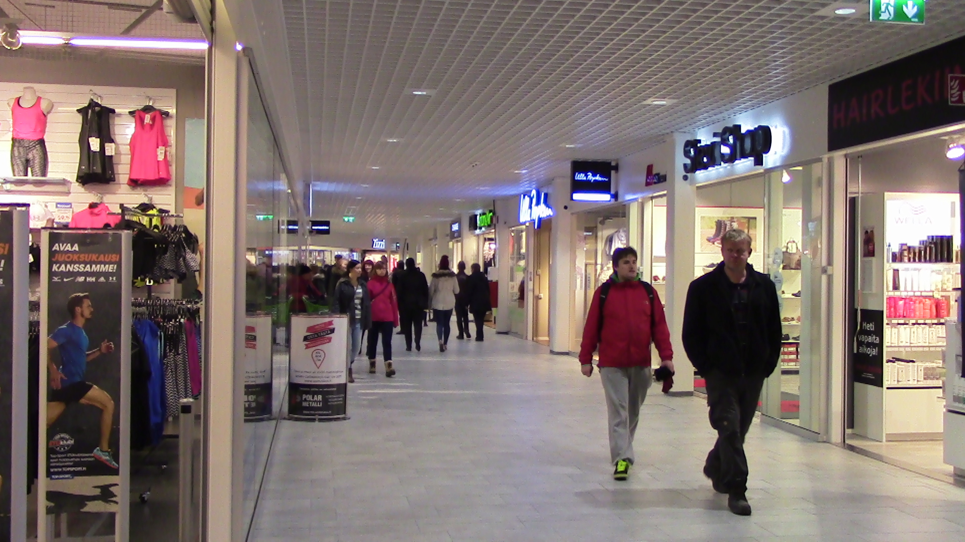 The walk street of Ideapark shopping center in Oulu, Finland. It's the smaller version of original Ideapark shopping center located in Lempäälä.